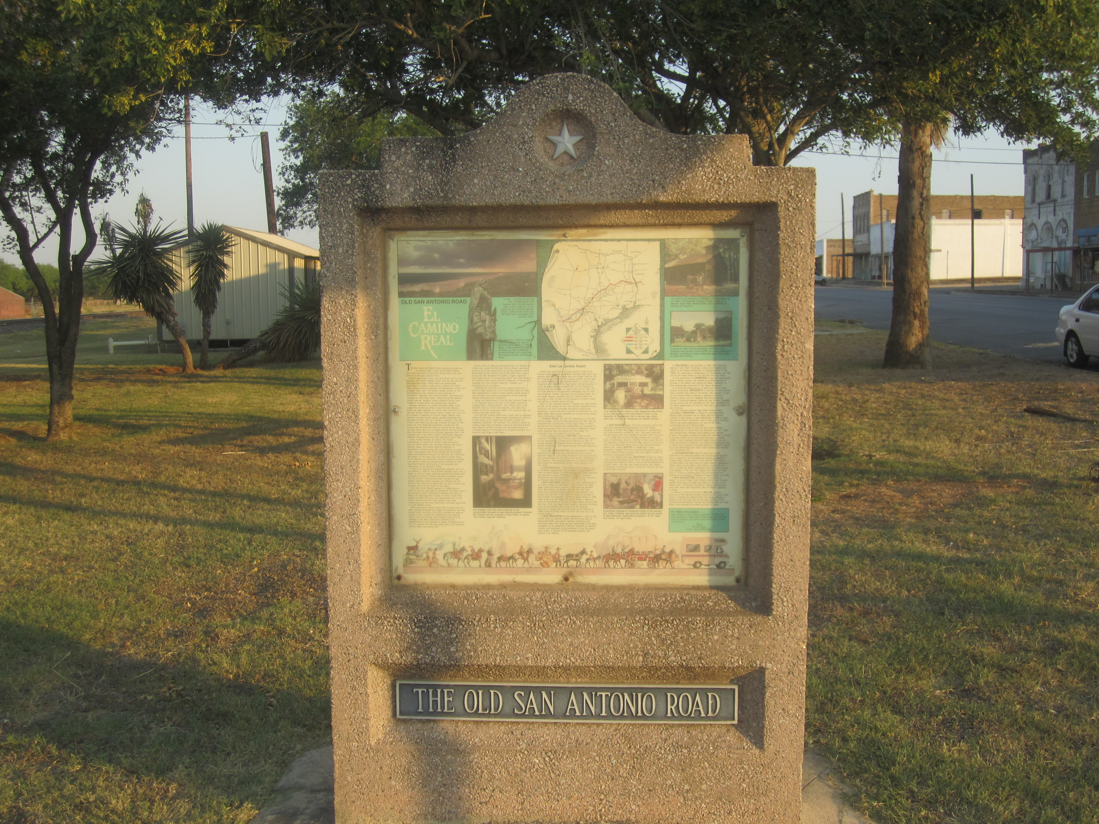 I took photo of Old San Antonio Road marker in Cotulla, TX, with Canon camera.